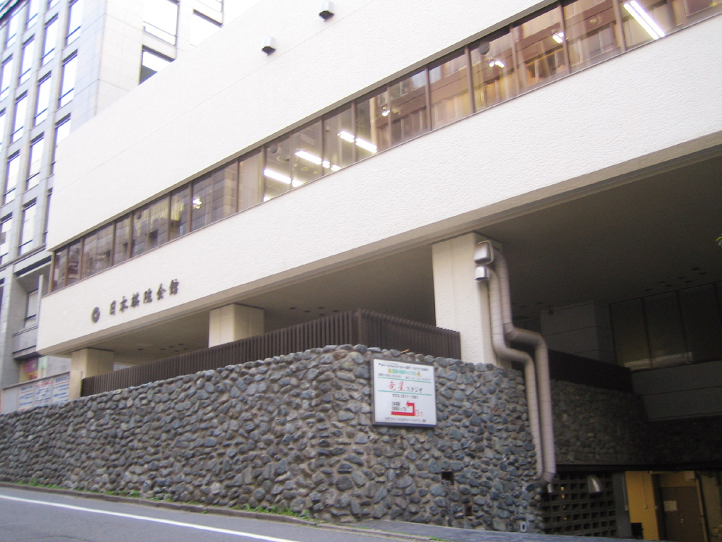 Japan Go Association (日本棋院 Nihon Ki-in), in Chiyoda, Tokyo, Japan